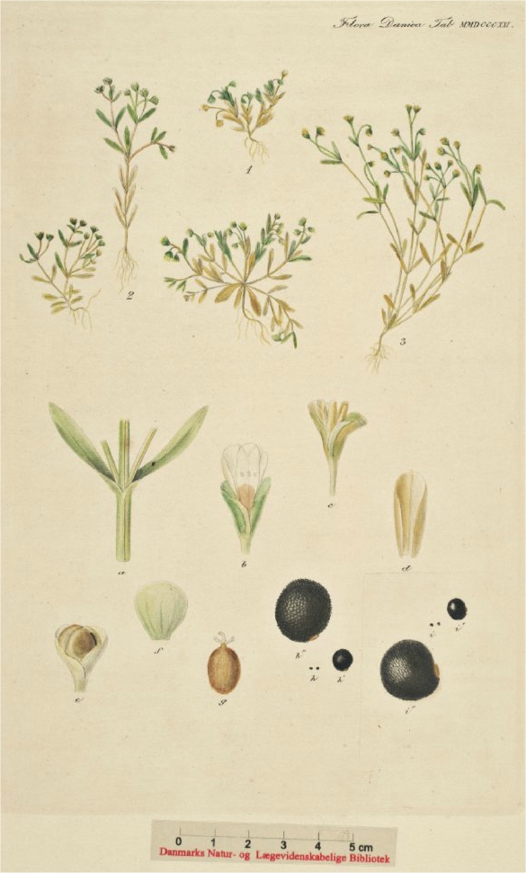 Montia minor (= Montia fontana subsp. chondrosperma)